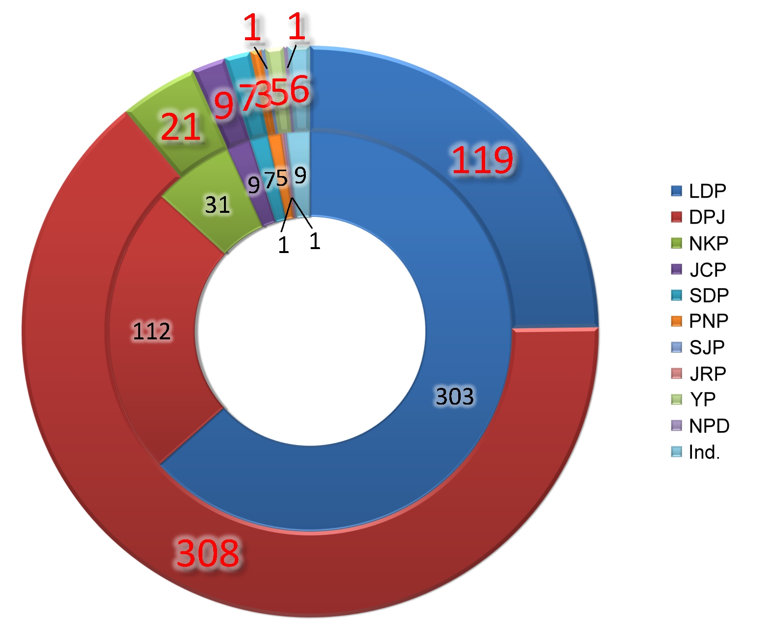 Before and after election results